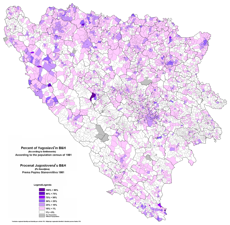 This is a map of Bosnia and Herzegovina which shows the percent of Yugoslavs according to the 1991 census. The data is such that it includes those who identified as regional identification, and identification according to article 170.